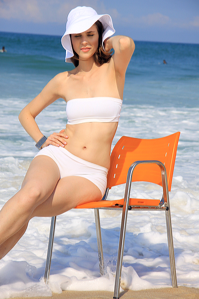 Stainless Steel with rounded pipe and polypropylene seats made by Palmetal in Rio de Janeiro, Brazil. This product is very usefulll for sea regions. This sea is Recreio Beach in a saturday morning. The model is Sofia Ceccato